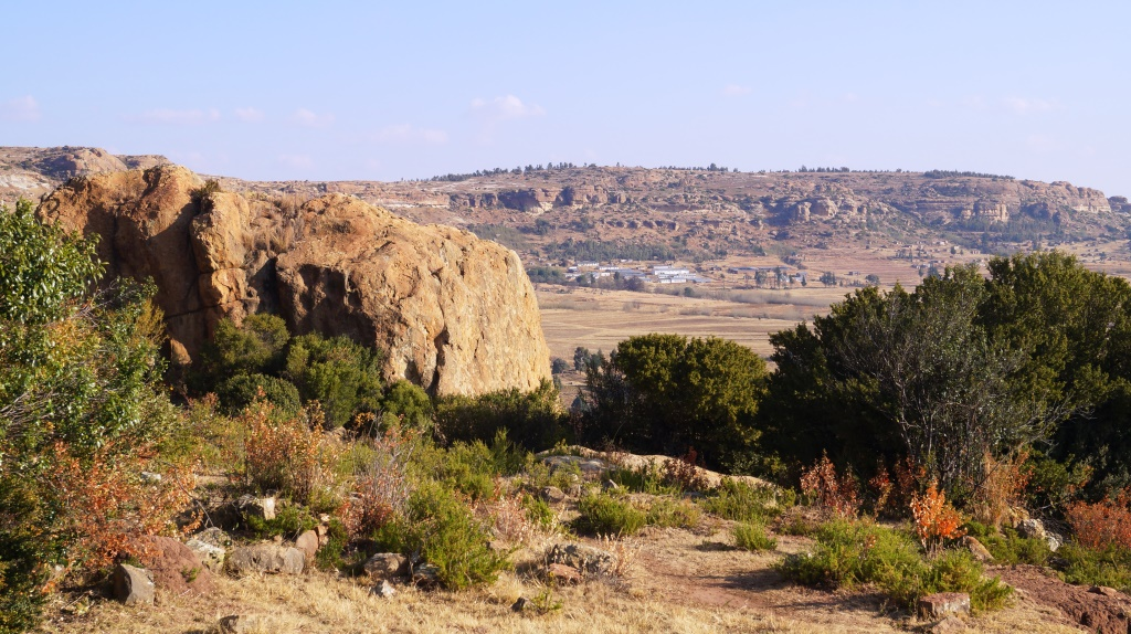 Relics of Molapo's Pre-1865 Village